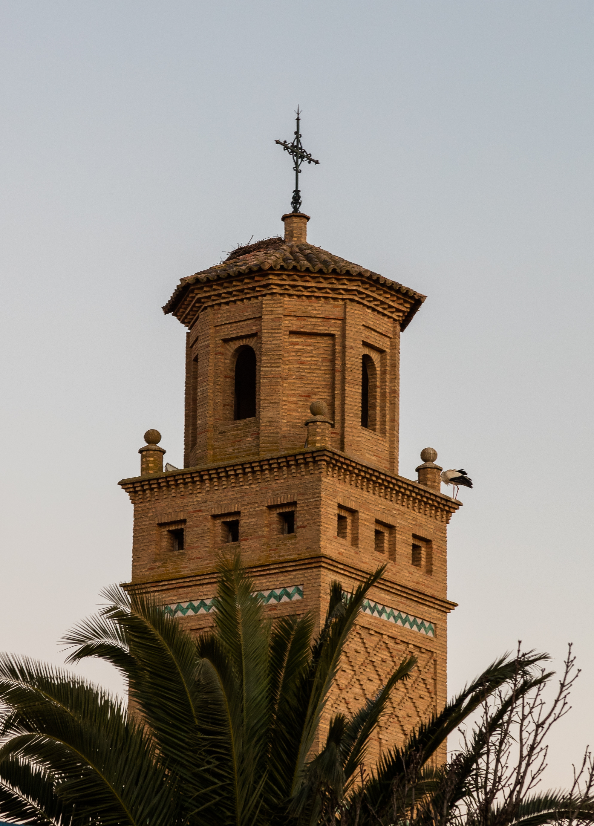 Church of St Andres, Pinseque, Saragossa, Spain